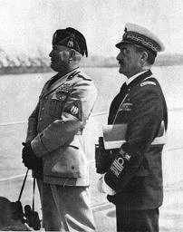 Domenico Cavagnari (right) with Mussolini.